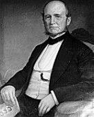 George Washington Kittredge (New Hampshire Congressman)